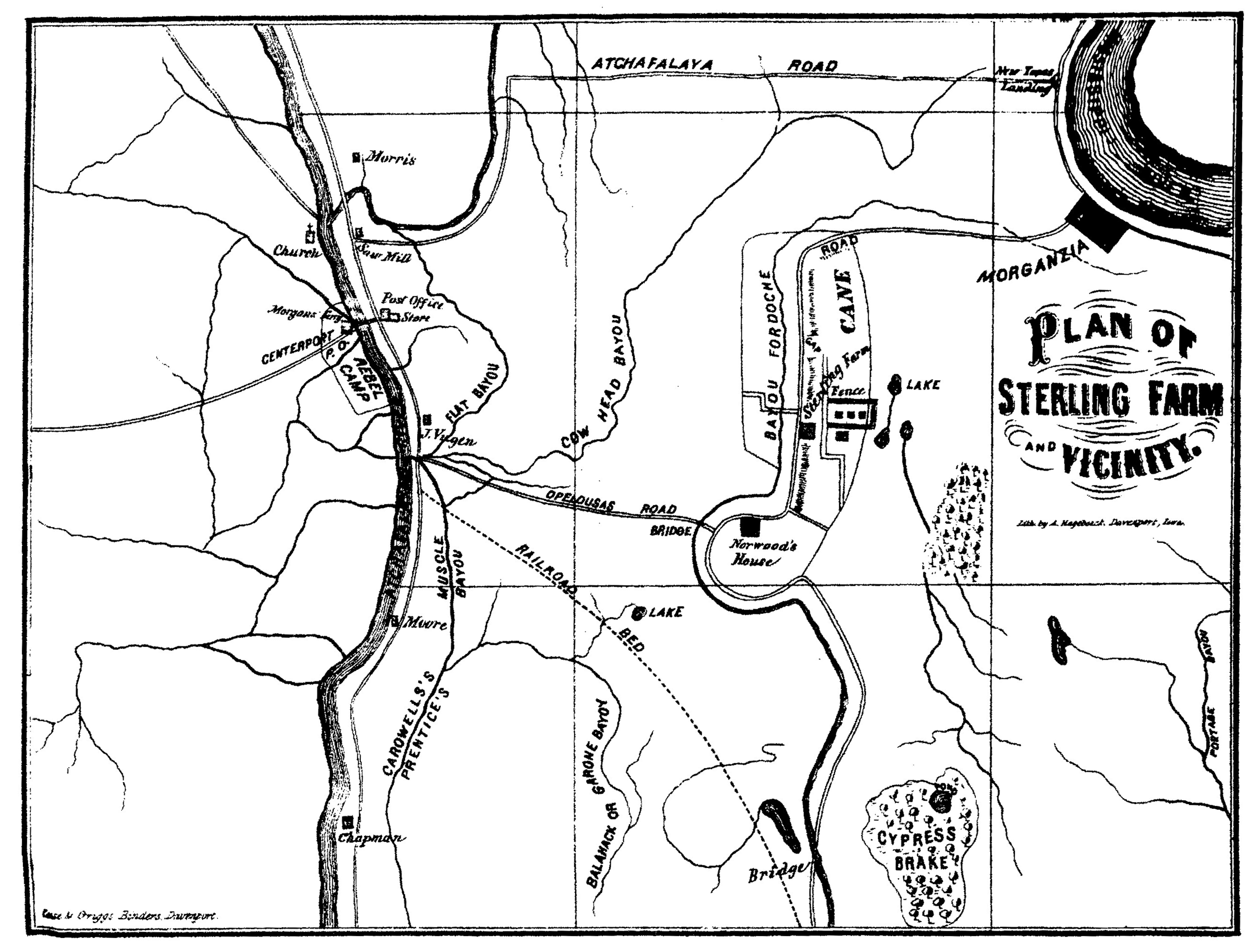 Map, Battle of Sterling's Plantation, Louisiana, 1863. Scanned copy of map of engagement during the American Civil War.